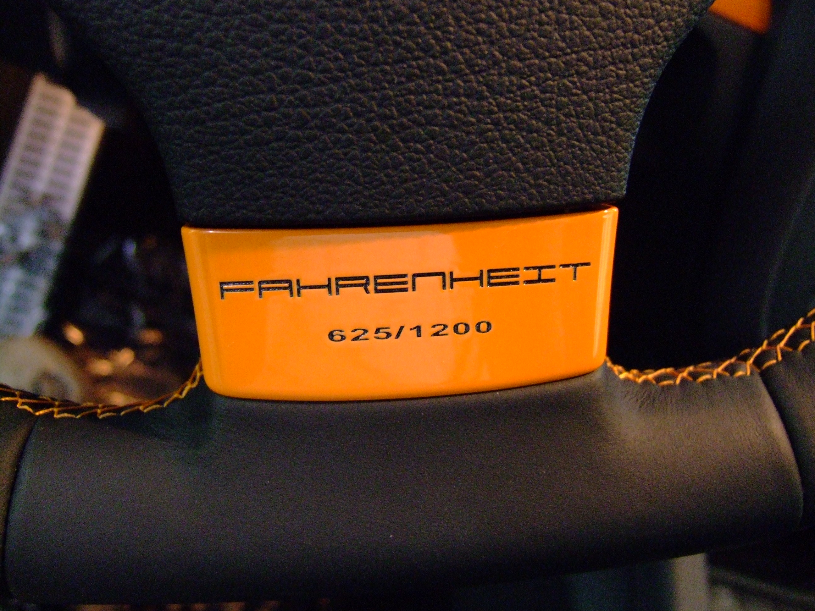 Numbering plate for a special edition Volkswagen GTI